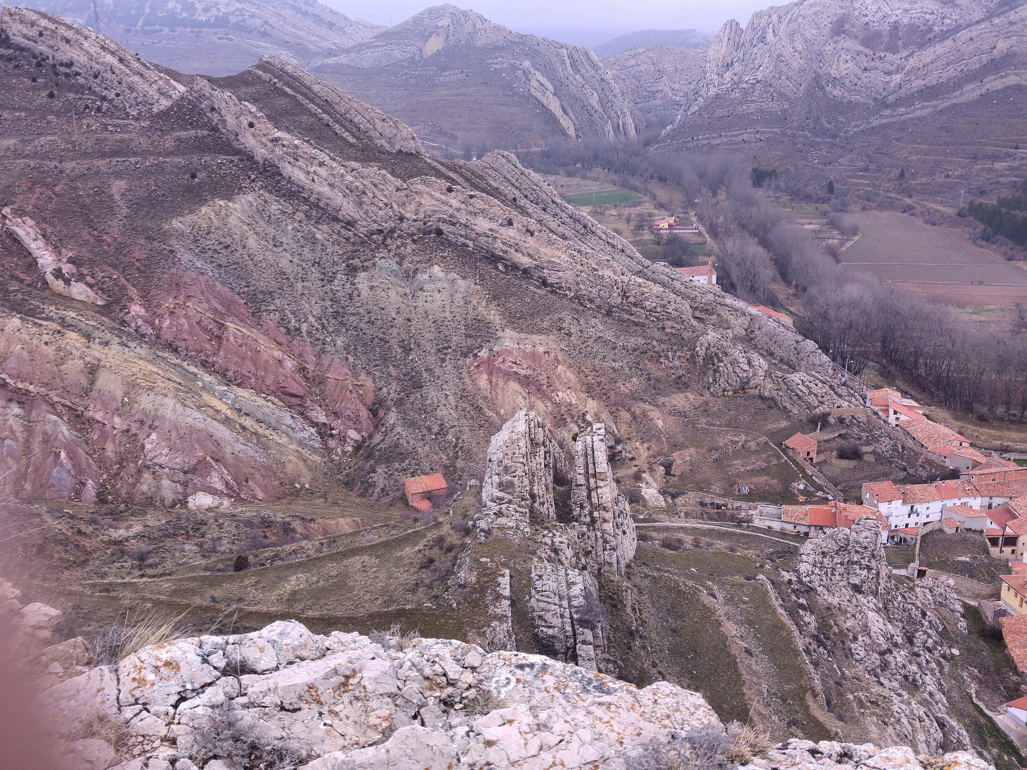 The geological park of Aliaga (Teruel, Spain) is one of the most interesting geological zones of Aragon, a viewpoint of the last 200 million years of Earth's history.